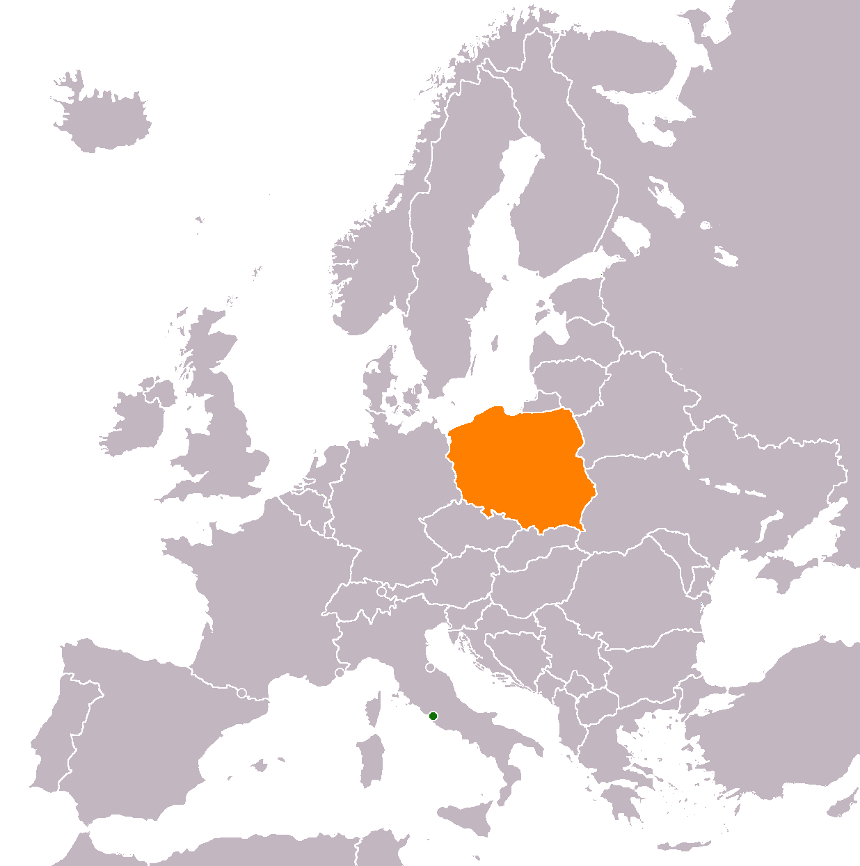 Map showing locations of both the Holy See and Poland